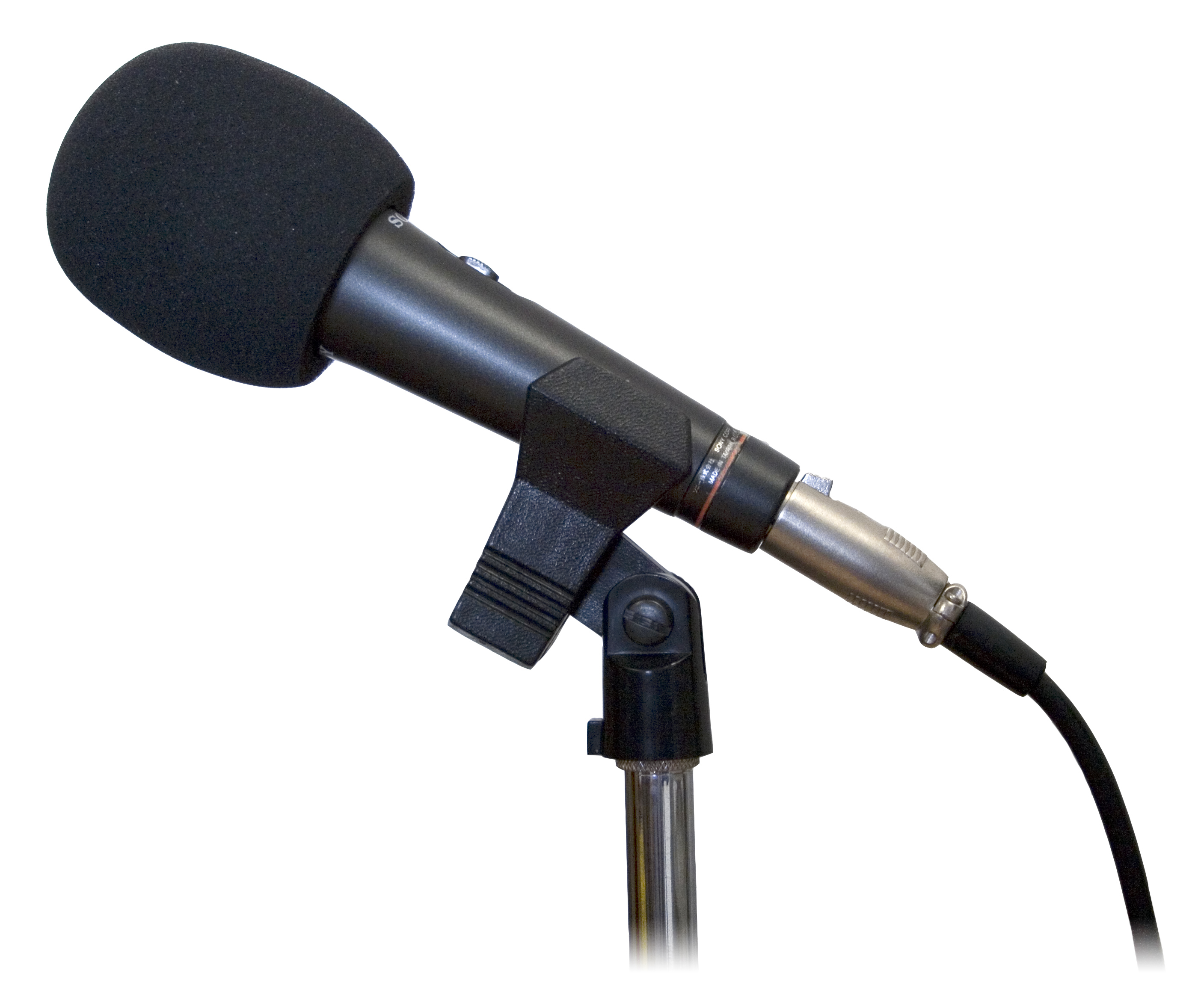 An image of a Sony microphone with a pop shield on a white background.